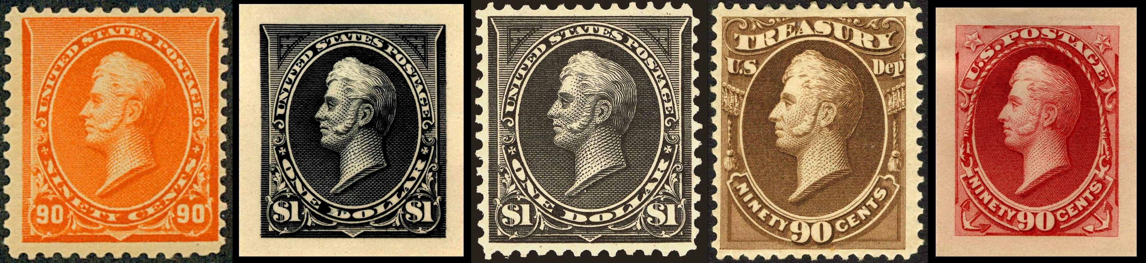 Image of five US Postage stamps depicting Oliver Hazard Perry